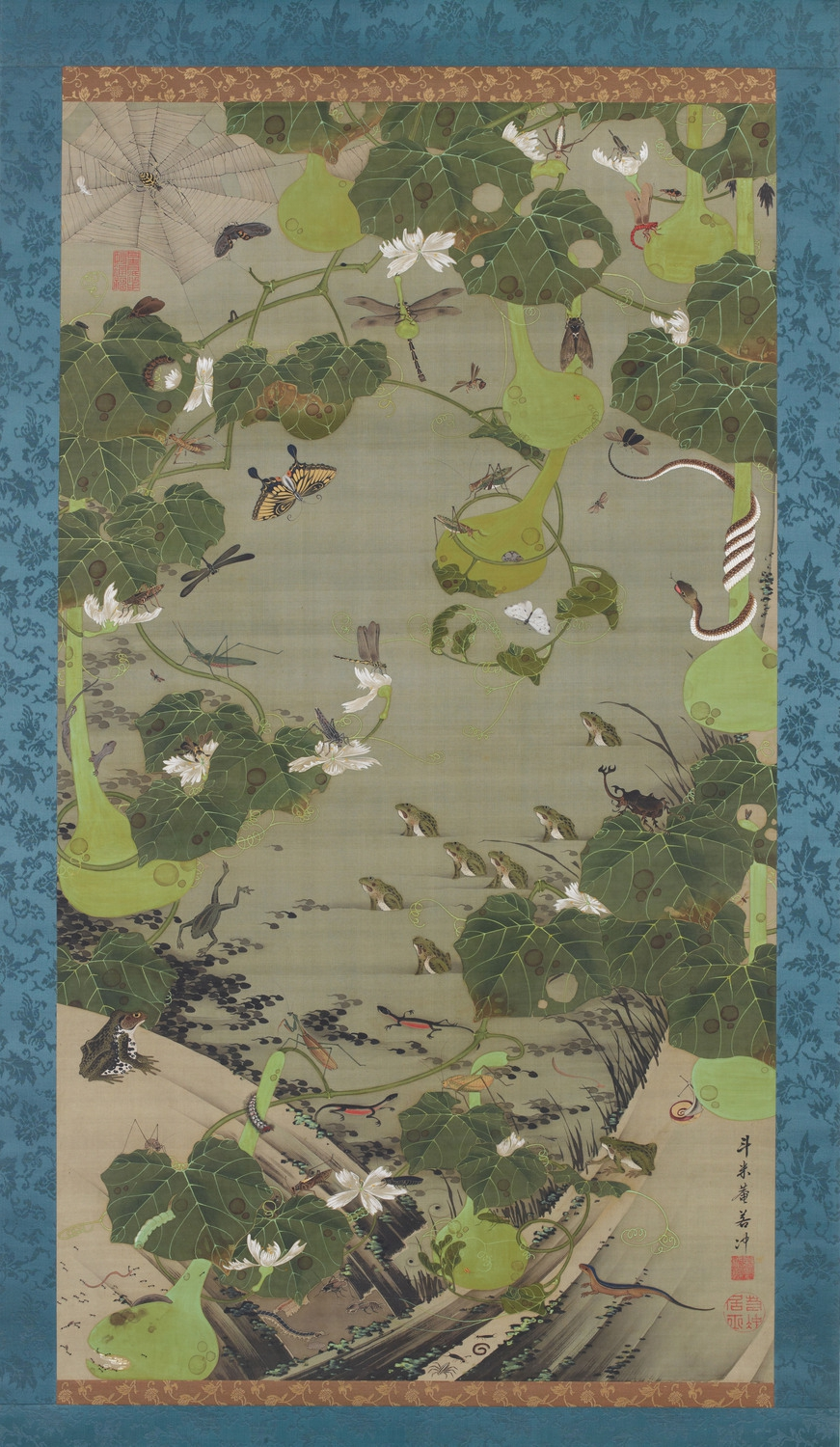 Pond and Insects from the Colorful Realm of Living Beings by Itō Jakuchū, c. 1761-65 (Edo Period)